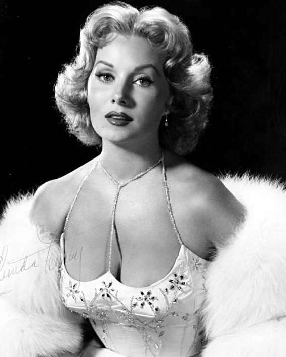 Original signed publicity photo of Rhonda Fleming.